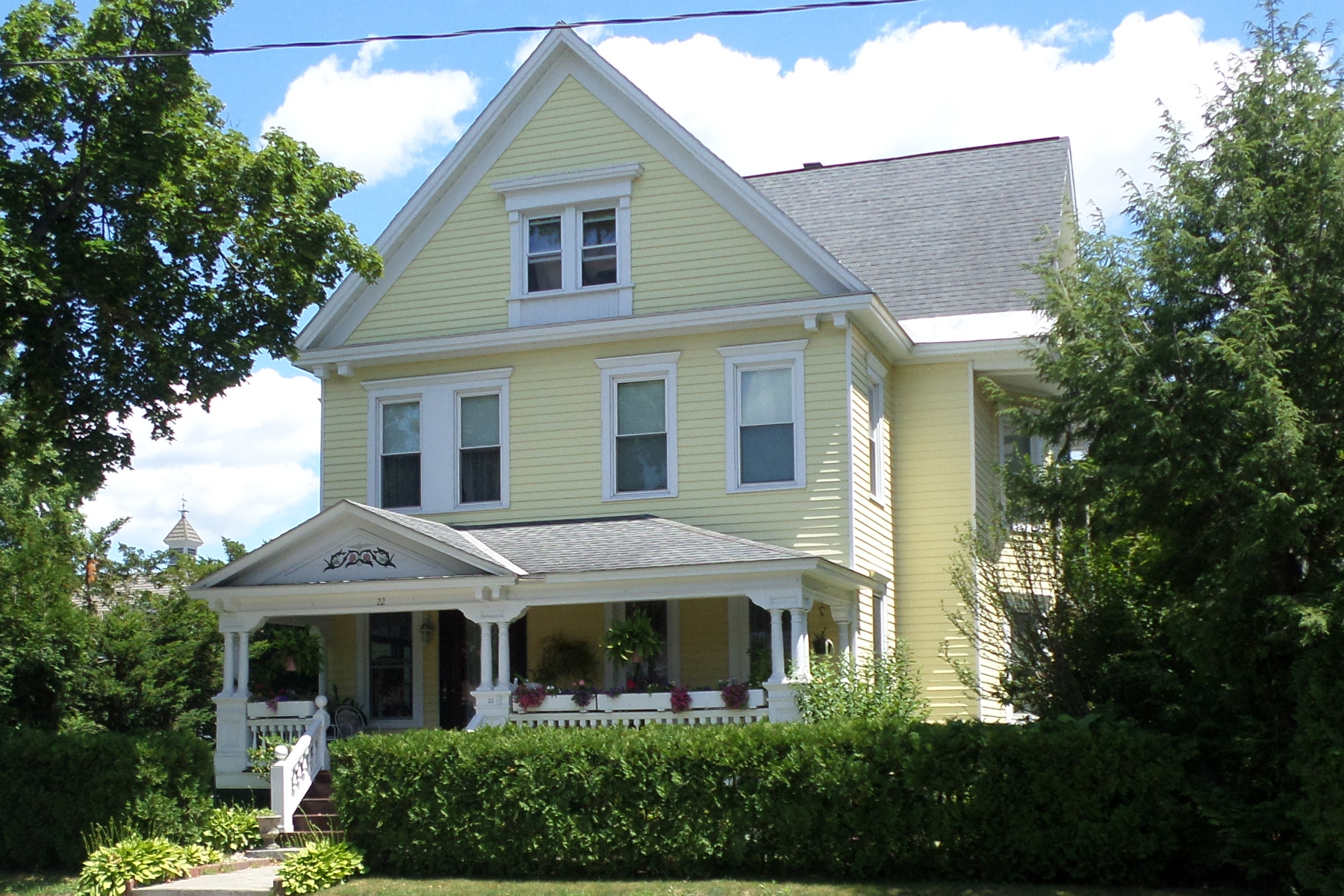 Home designed by Robert Newton Brezee (1896)